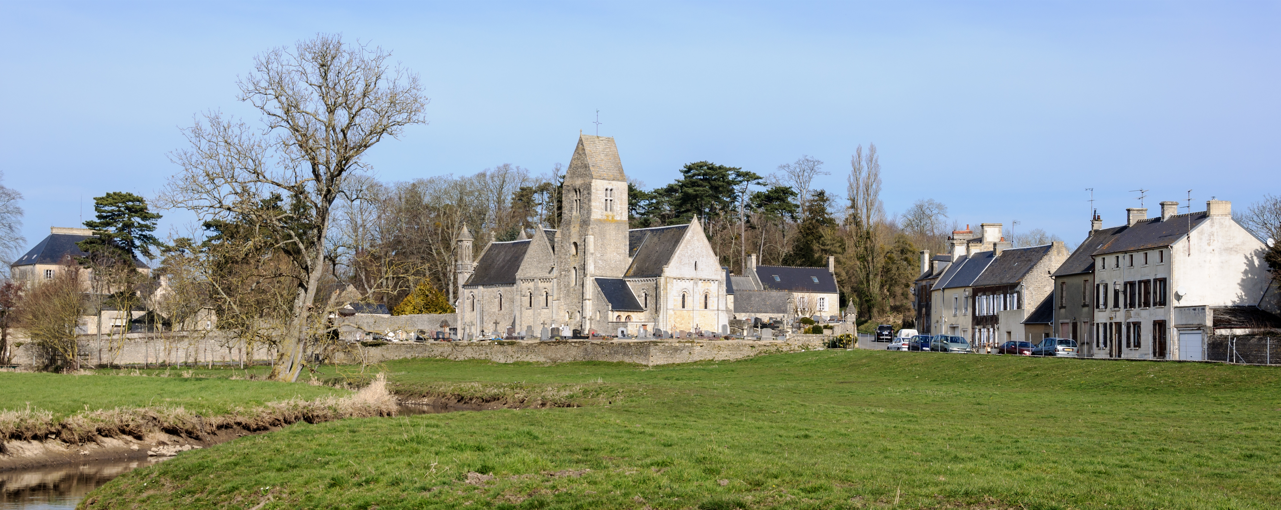 Vaux-sur-Aure, Calvados, Basse-Normandie, France